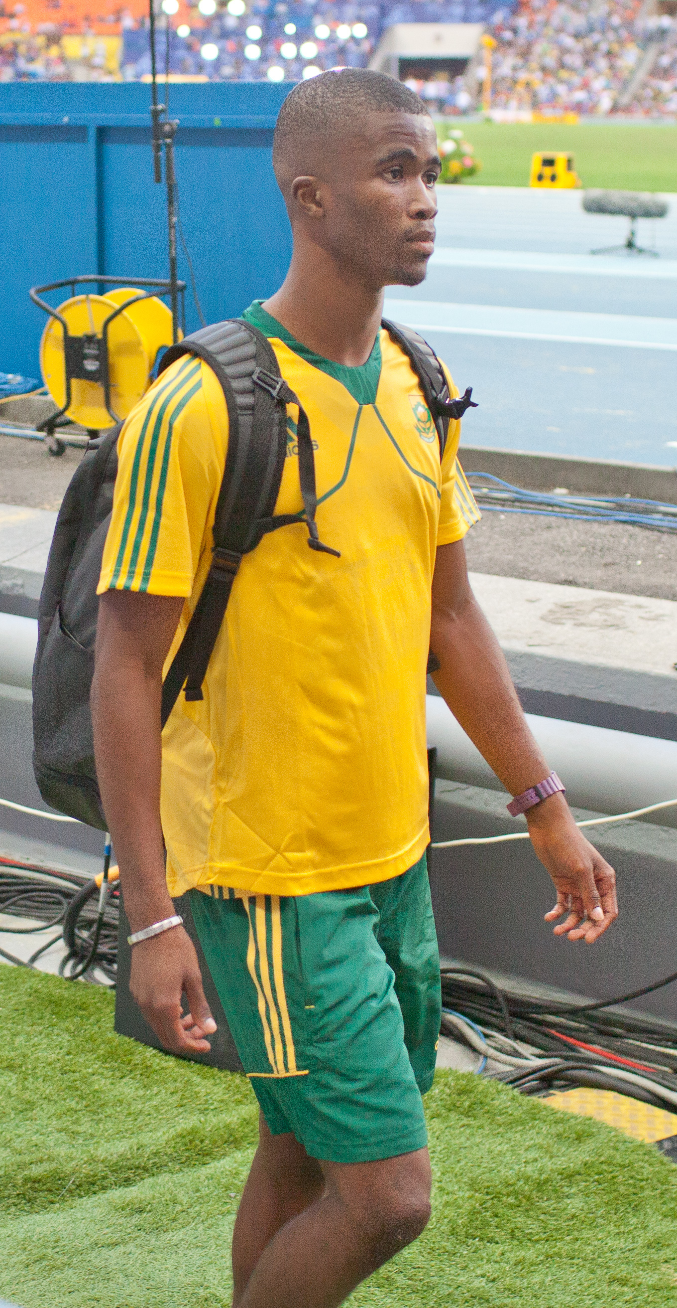 Anaso Jobodwana during 2013 World Championships in Athletics in Moscow.